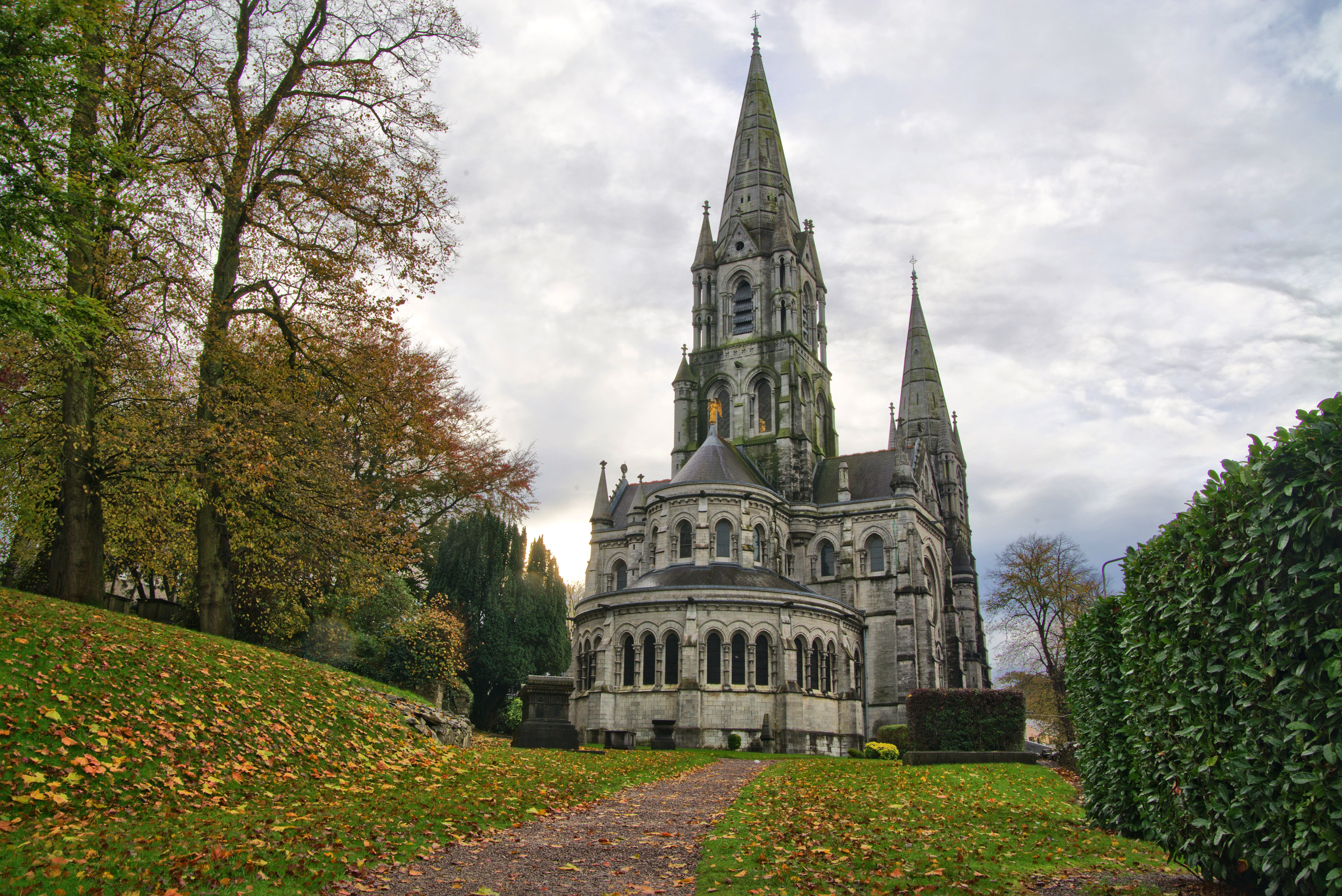 Out Back of the Cathedral of Cork